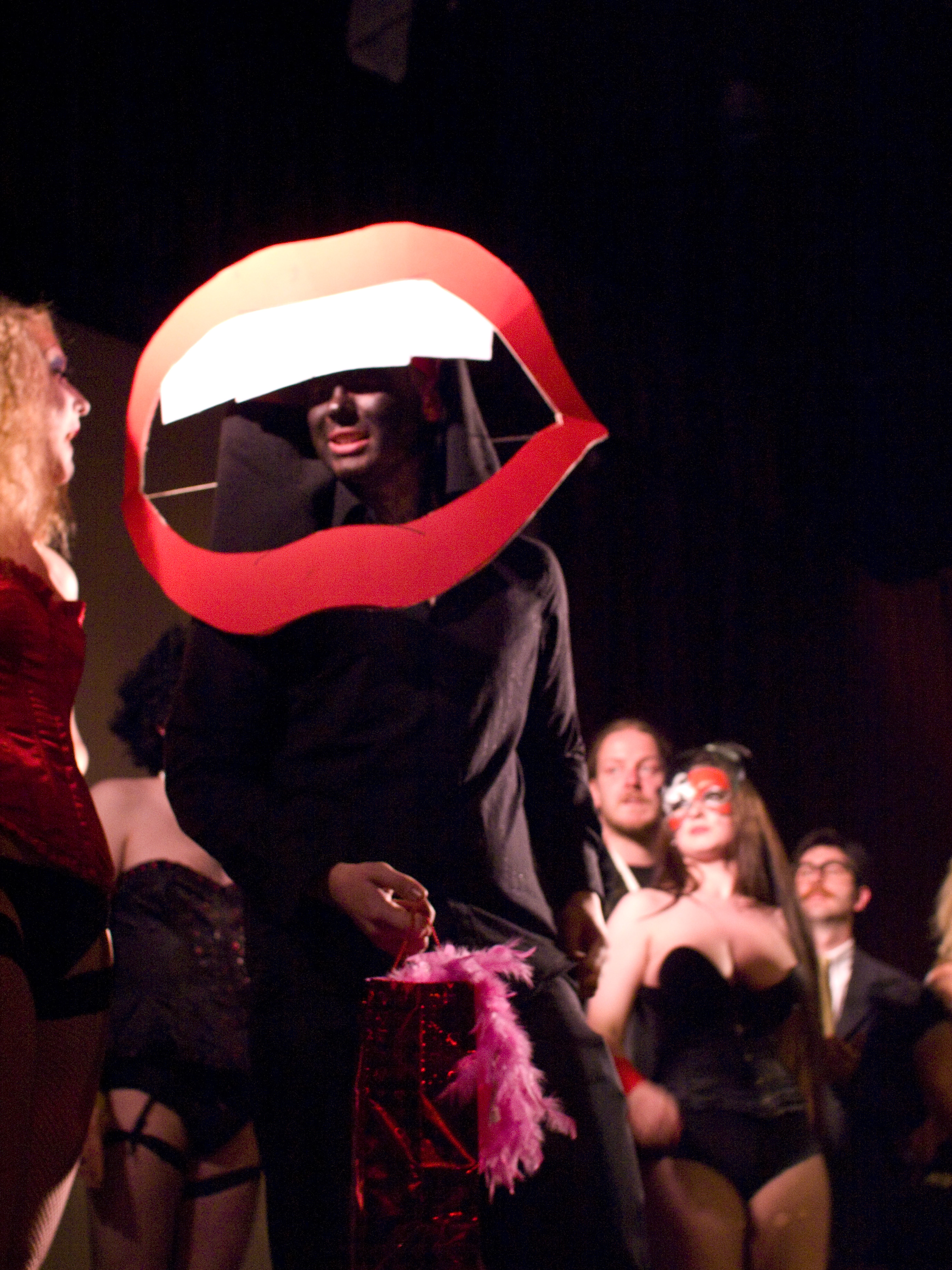 A shadow casting participant recreating the iconic opening lips of the Rocky Horror Picture Show at the Sugar Club in Dublin, Ireland on St. Valentine's Day 2009